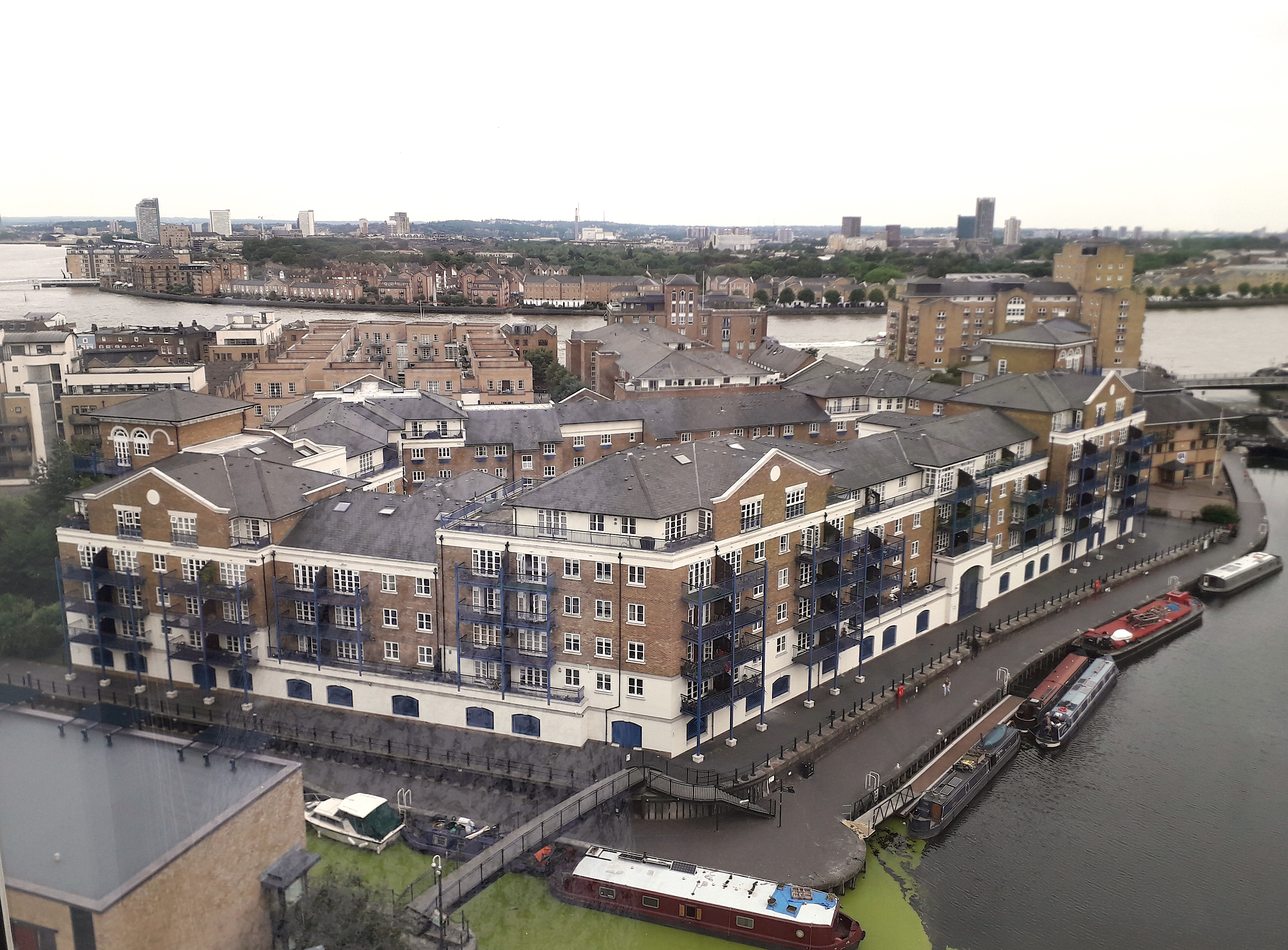 Victory Place, Limehouse Basin, on the site of the former Islandt., Limehouse Cu